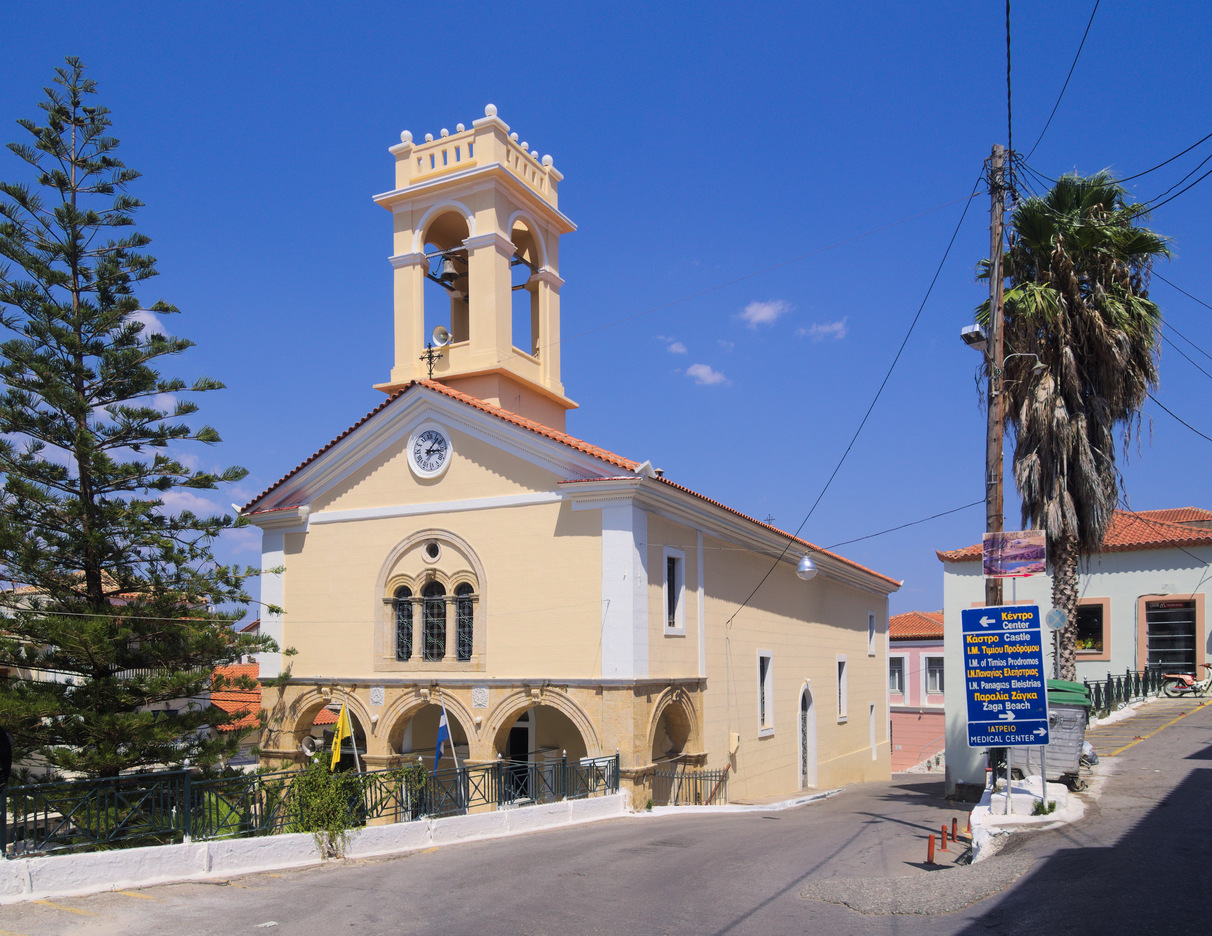 The church dedicated to Saint Demetrius, Koroni.